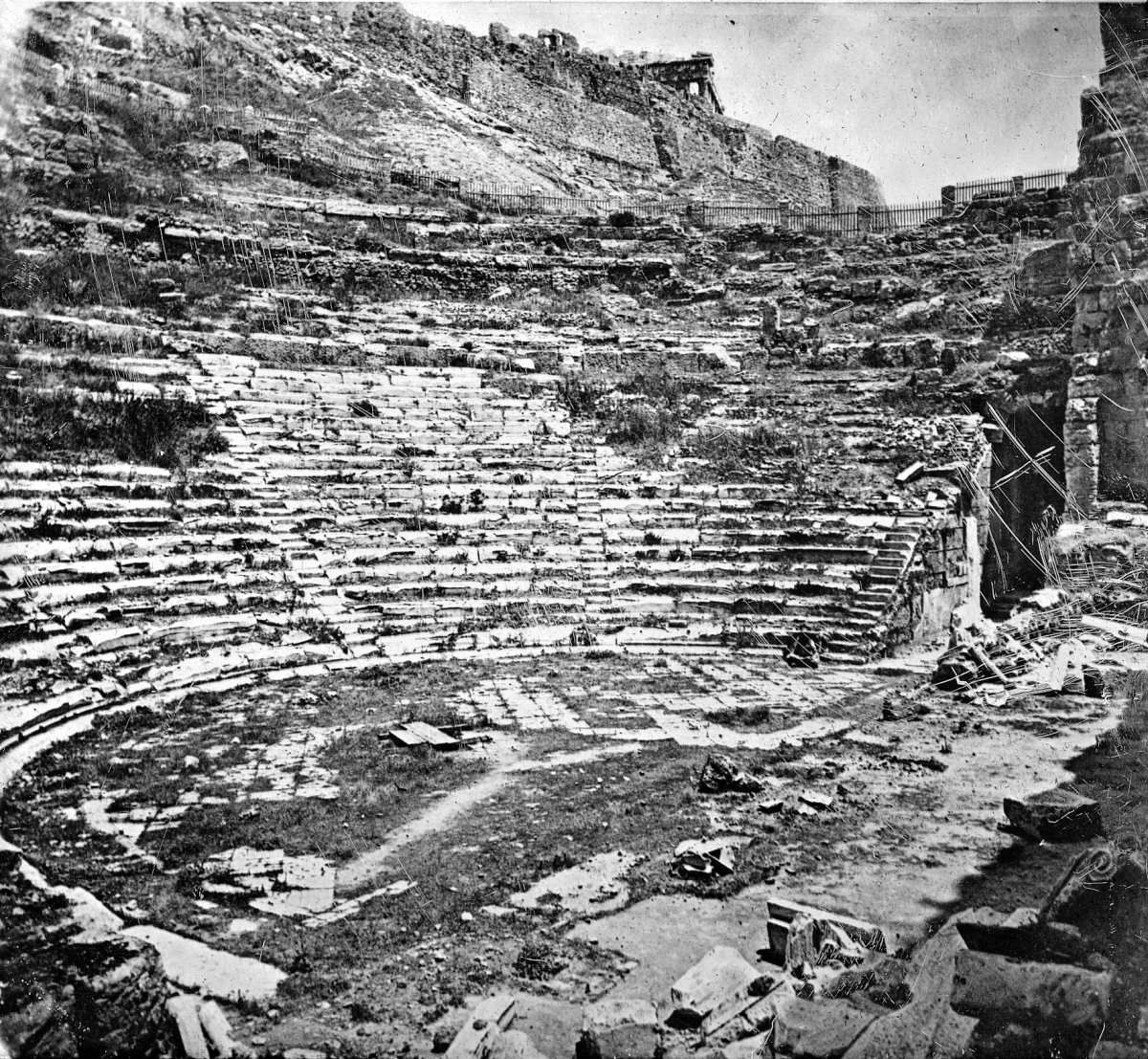 Odeon of Herodes Atticus, Athens, Greece. Brooklyn Museum Archives, Goodyear Archival Collection (S03_06_01_020 image 2457).